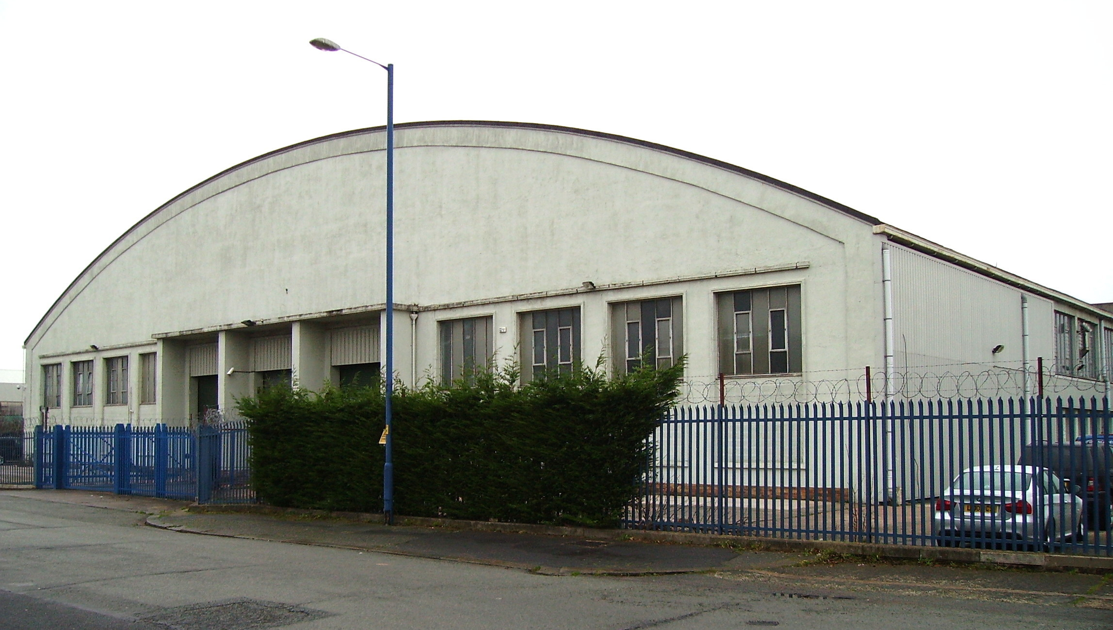 Wythenshawe Bus Grade, Harling Road, Sharston Industrial Area, Wythenshawe, Manchester, England